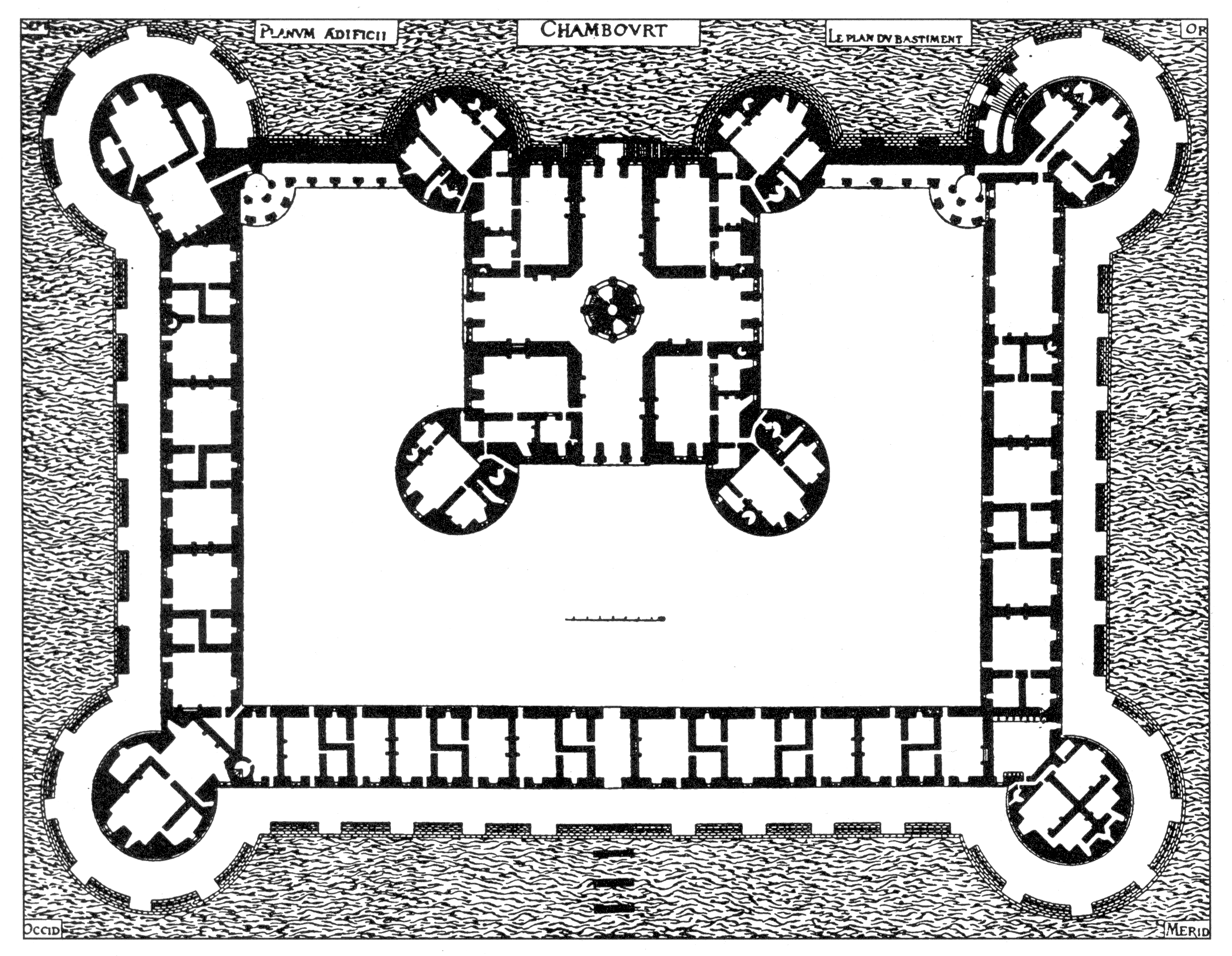 Floor plan of the Château de Chambord